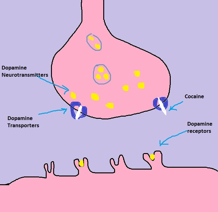 Cocaine 2